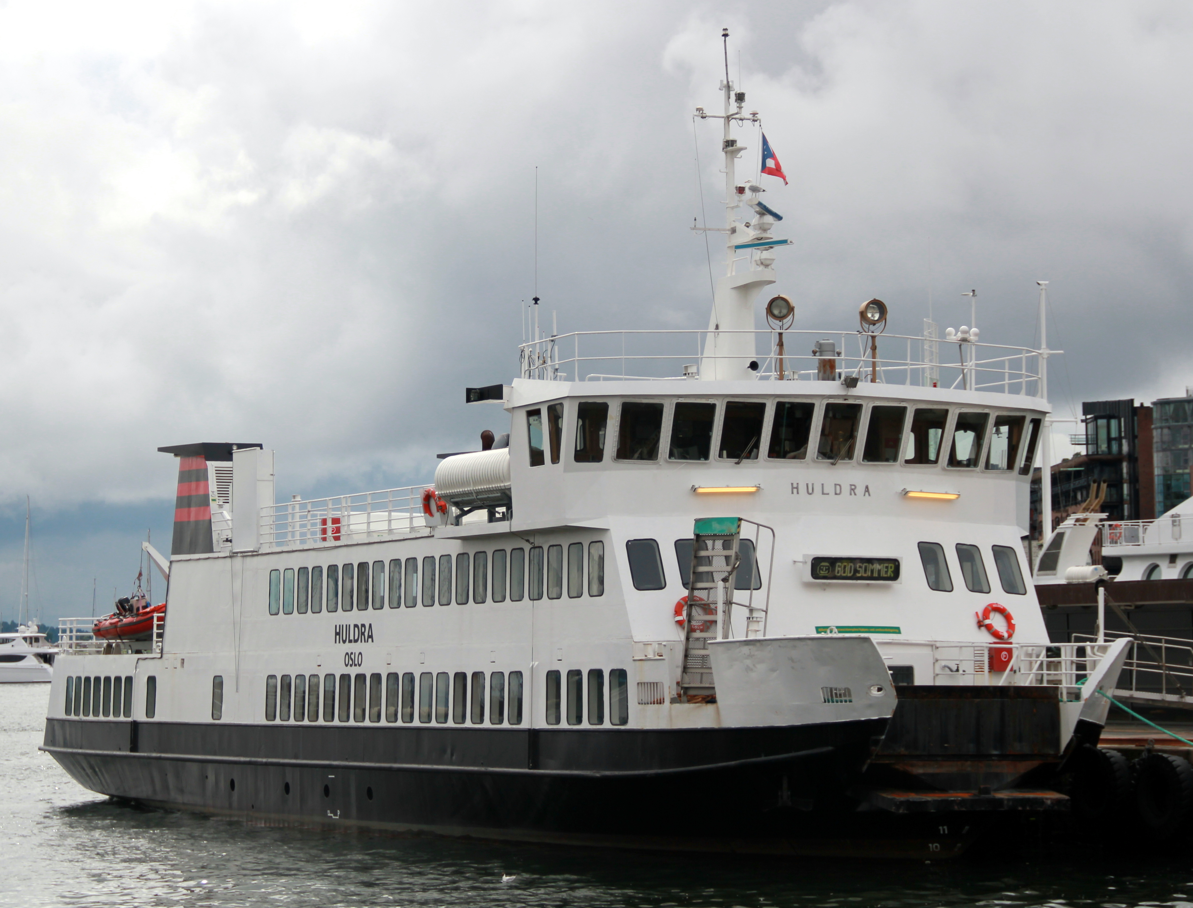 Ferryboat MF Huldra